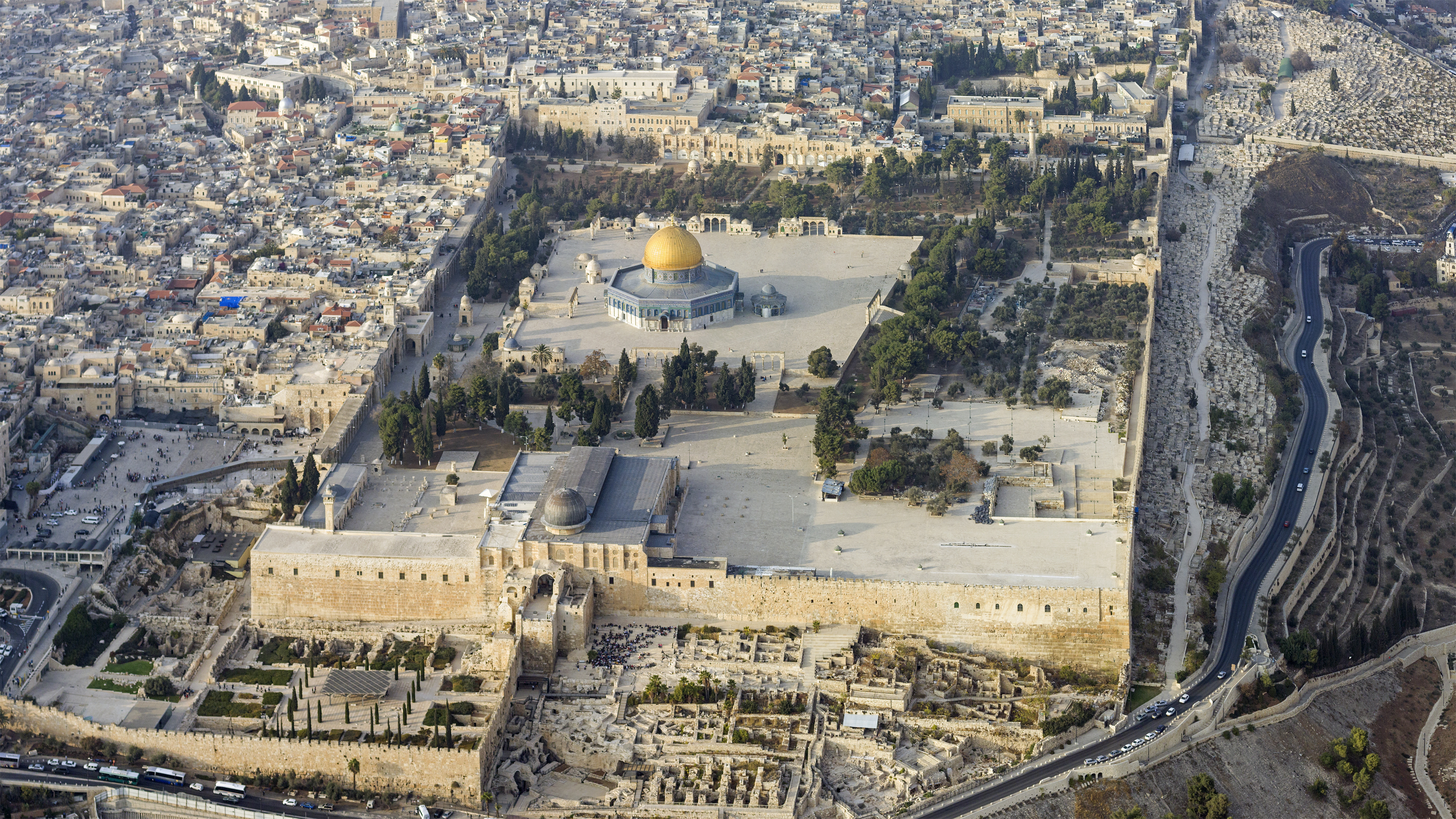 Aerial (helicopter) view of the Temple Mount.